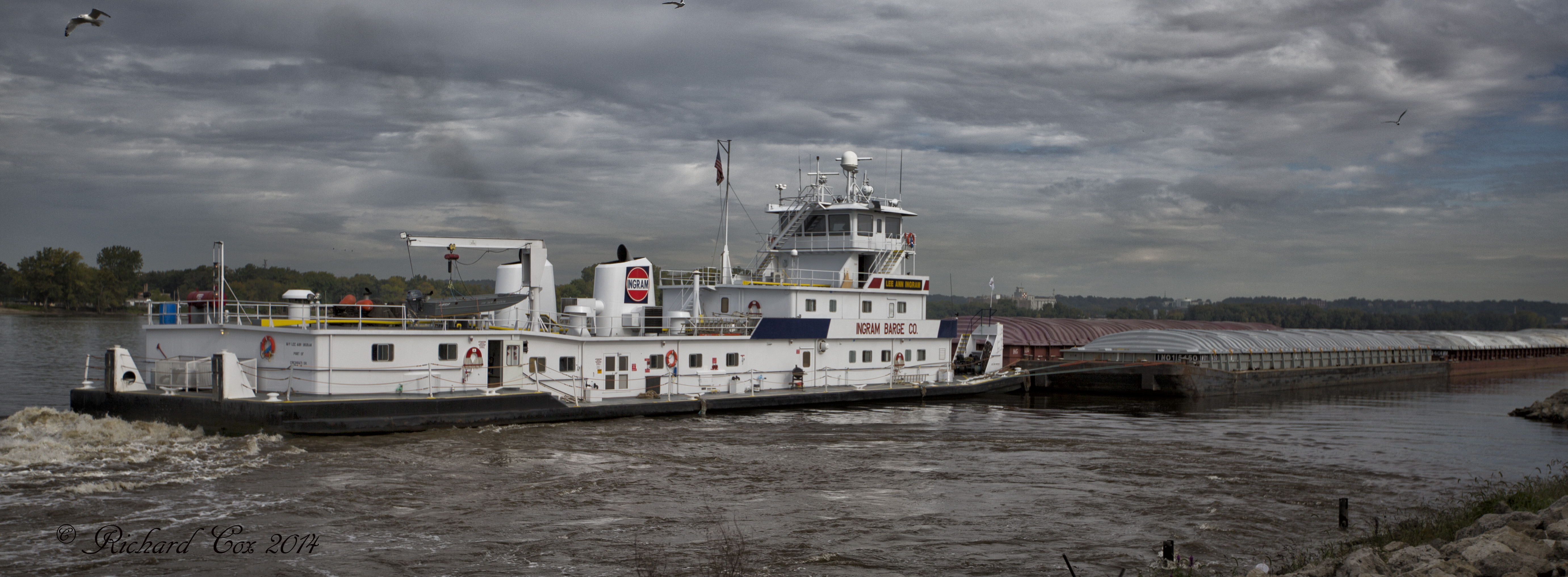 Ingram Barge company barge and tow boat